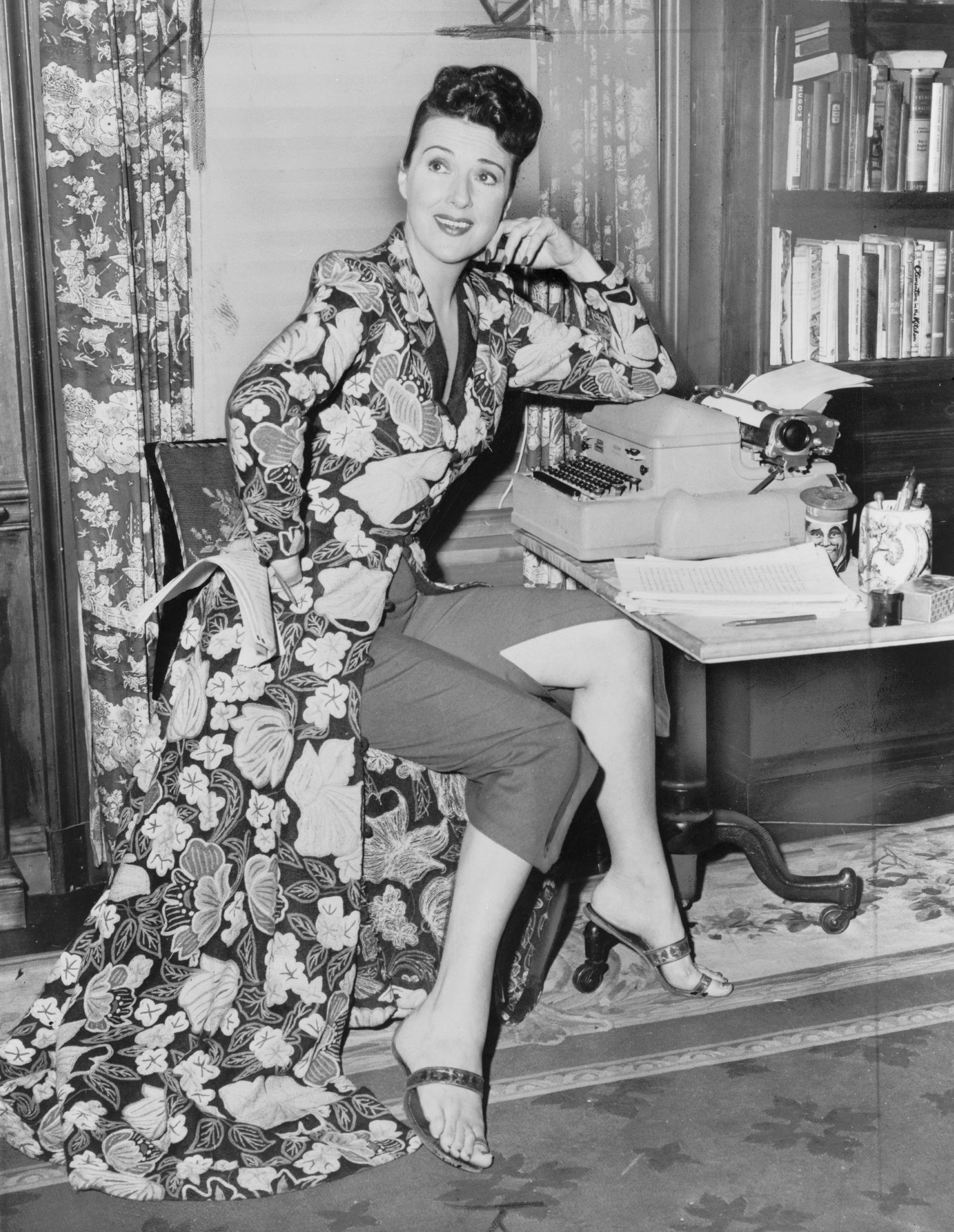 Gypsy Rose Lee, full-length portrait, seated at typewriter, facing slightly right / World Telegram & Sun photo by Fred Palumbo.